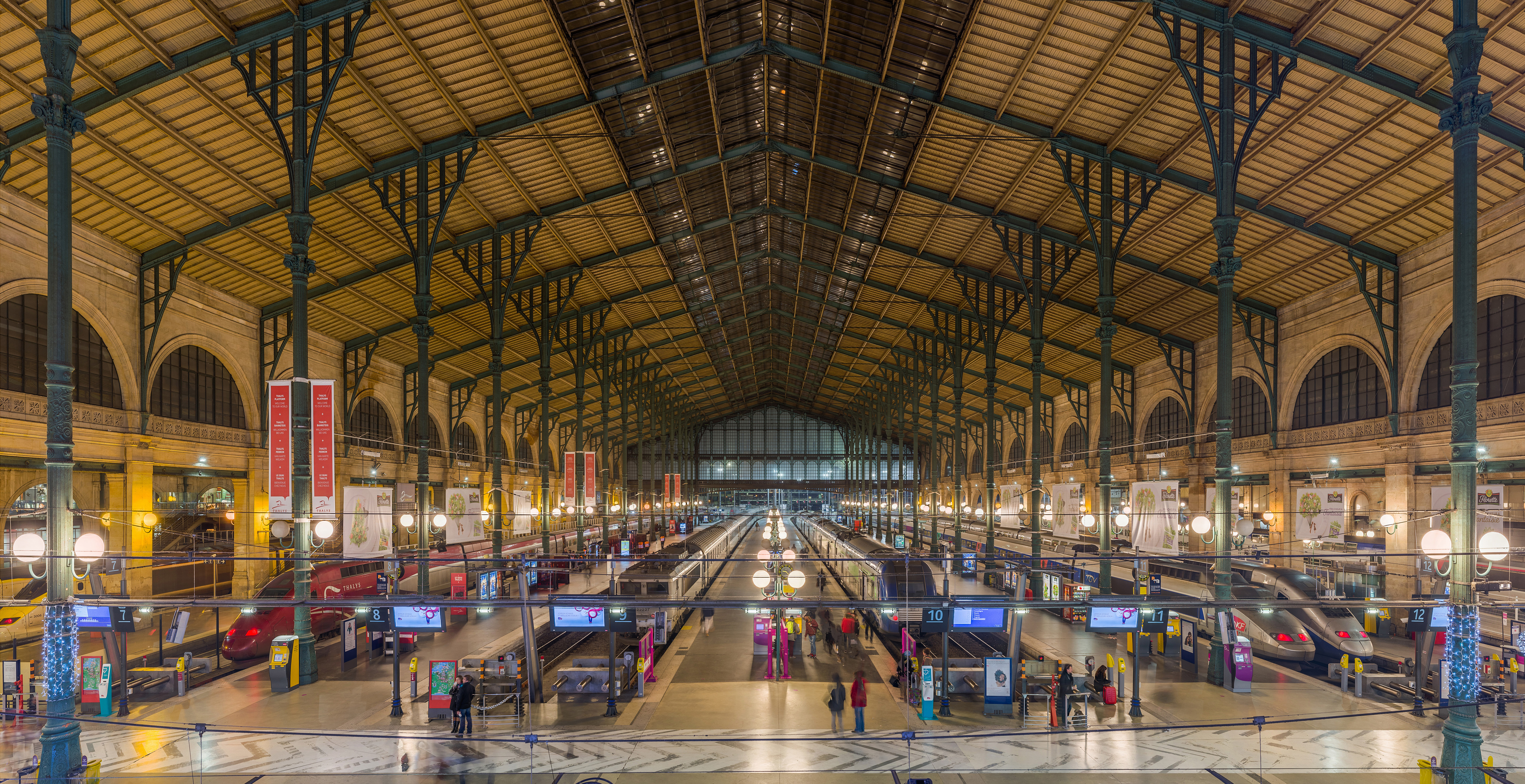 The interior of Gare du Nord taken from the balcony level in Paris, France.